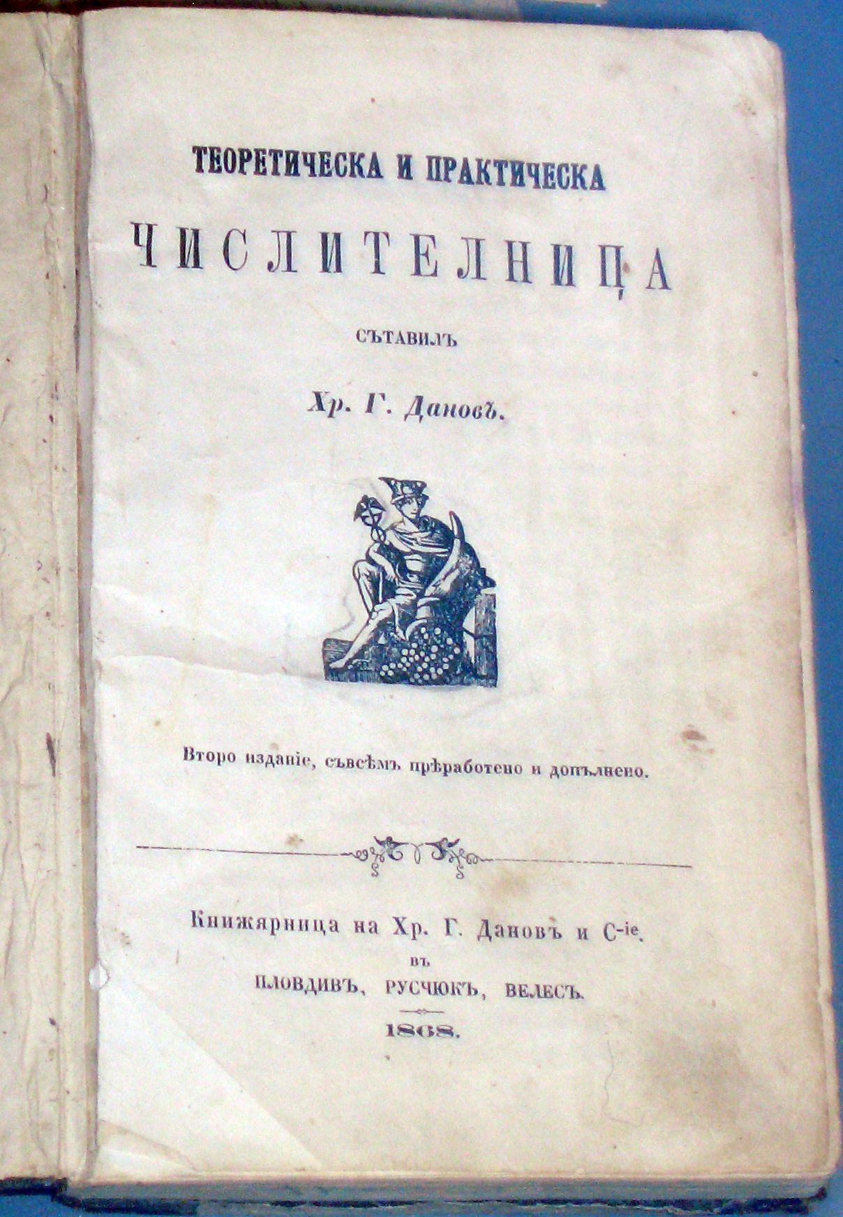 Hristo G. Danov - "Theoretical and practical mathematics book", second edition, 1868 in the collection of Stara Zagora's Regional history museum